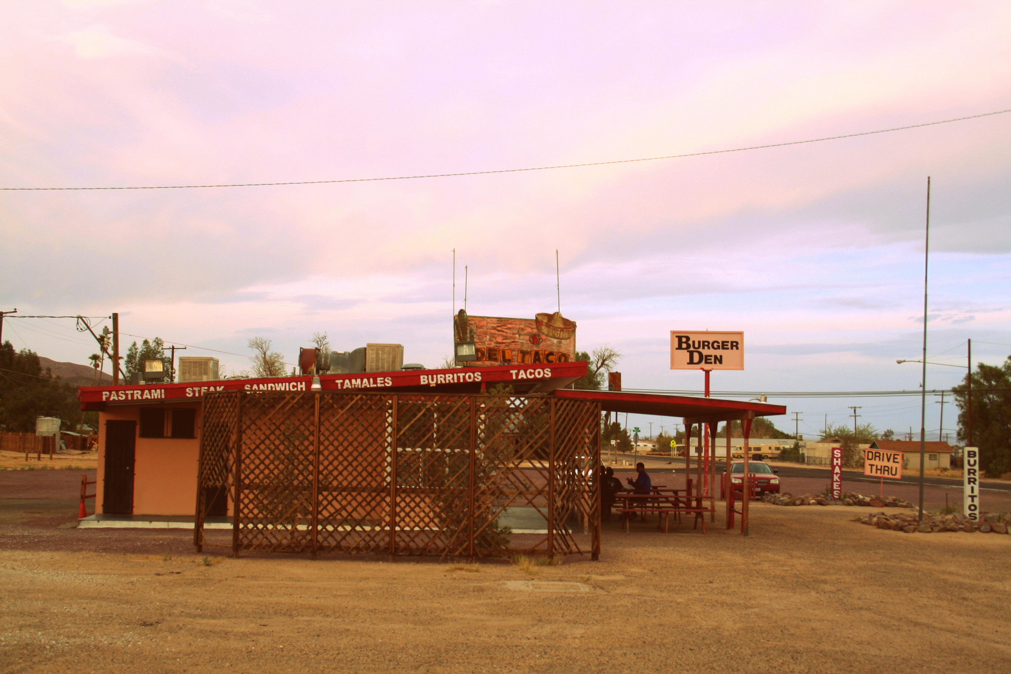 Formerly Del Taco. Yermo, CA.